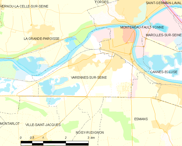 Map of French municipality Varennes-sur-Seine